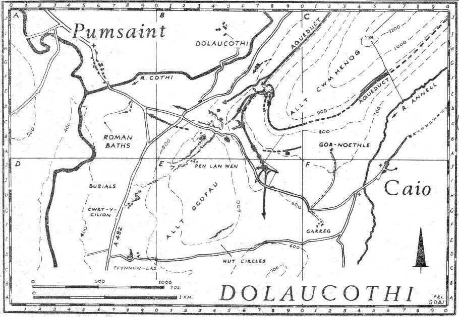 Map made by author in 1970